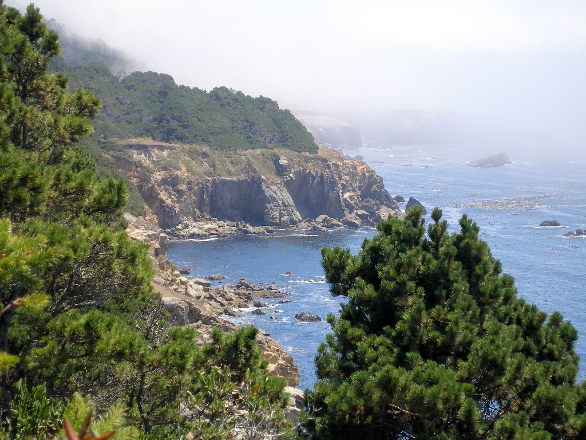 Pinus muricata and coastline — in Salt Point State Park, Sonoma County, California Type locality of Pinus muricata var. borealis — Axelrod ex Silba.